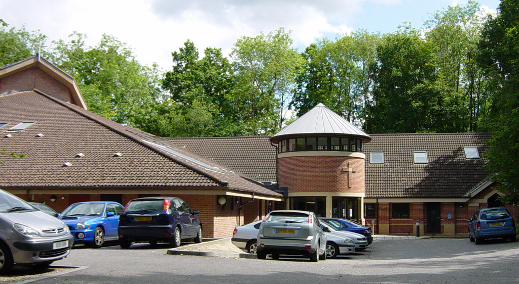 Christ Church, Chineham, Basingstoke, Hampshire, United Kingdom